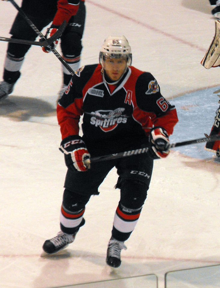 These pictures were taken by Devan Mighton in December 2013 in Owen Sound, ON, CA.